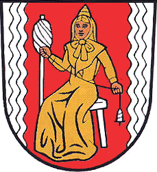 Coat of Arms of Geisleden